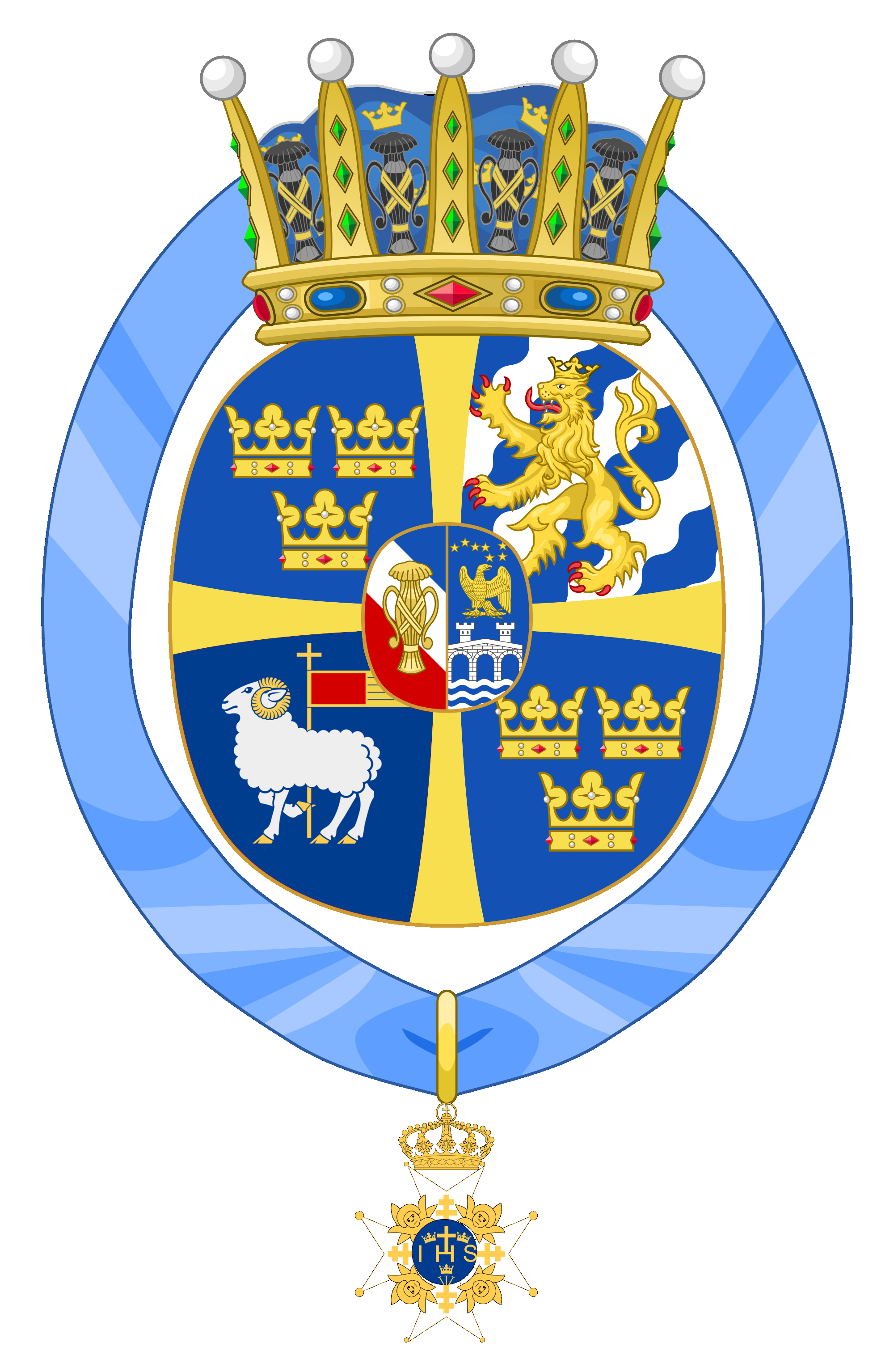 Coat of arms of Princess Leonore, Duchess of Gotland